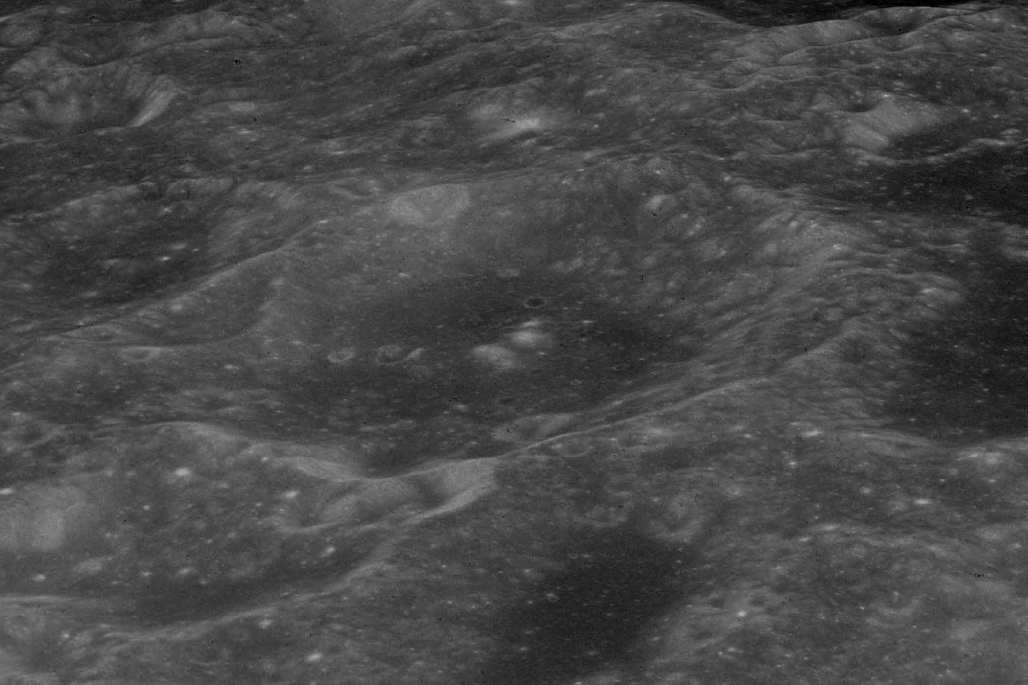 Oblique view of Maclaurin crater, on the moon. Brightness and contrast adjusted from original.